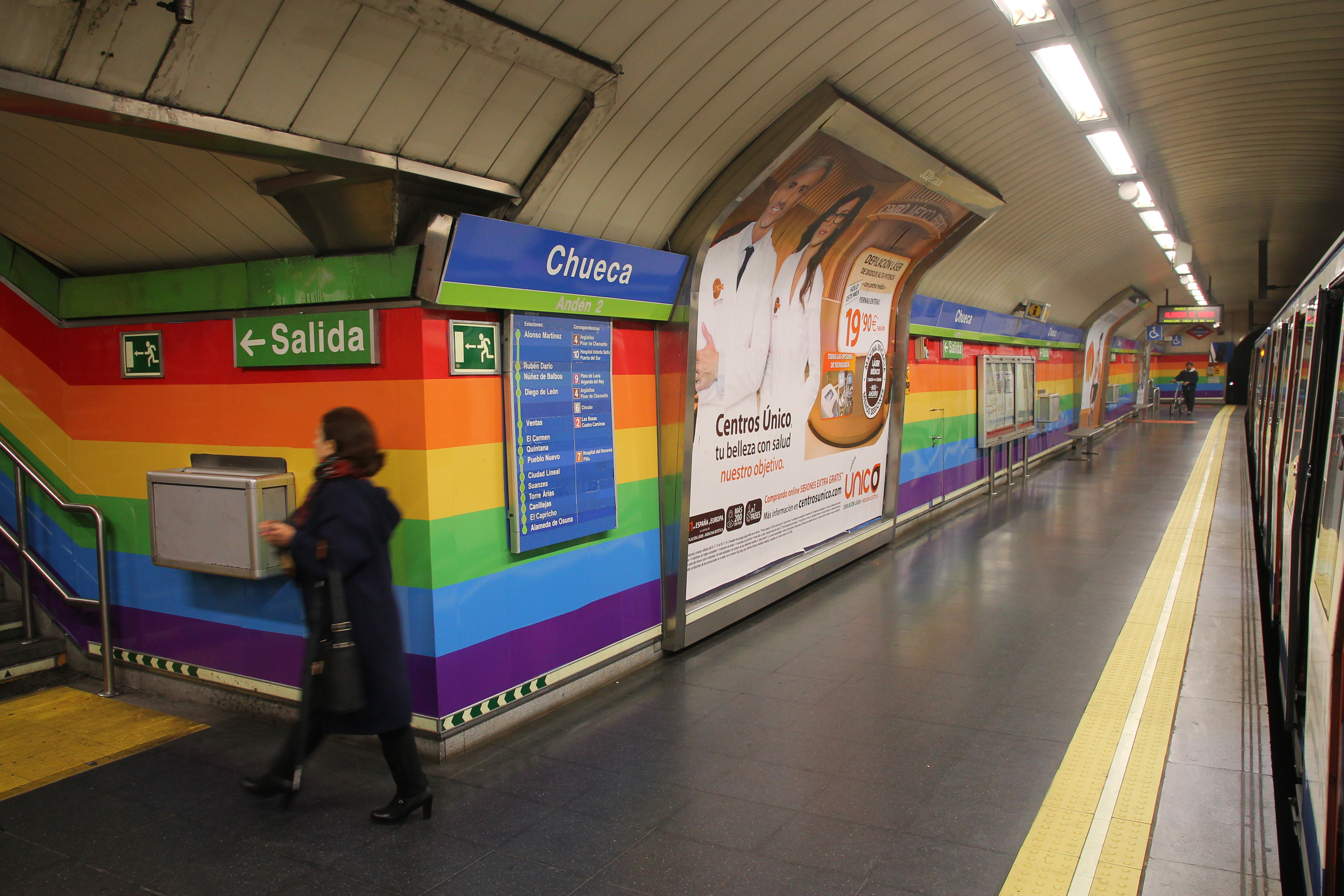 Estación de Chueca